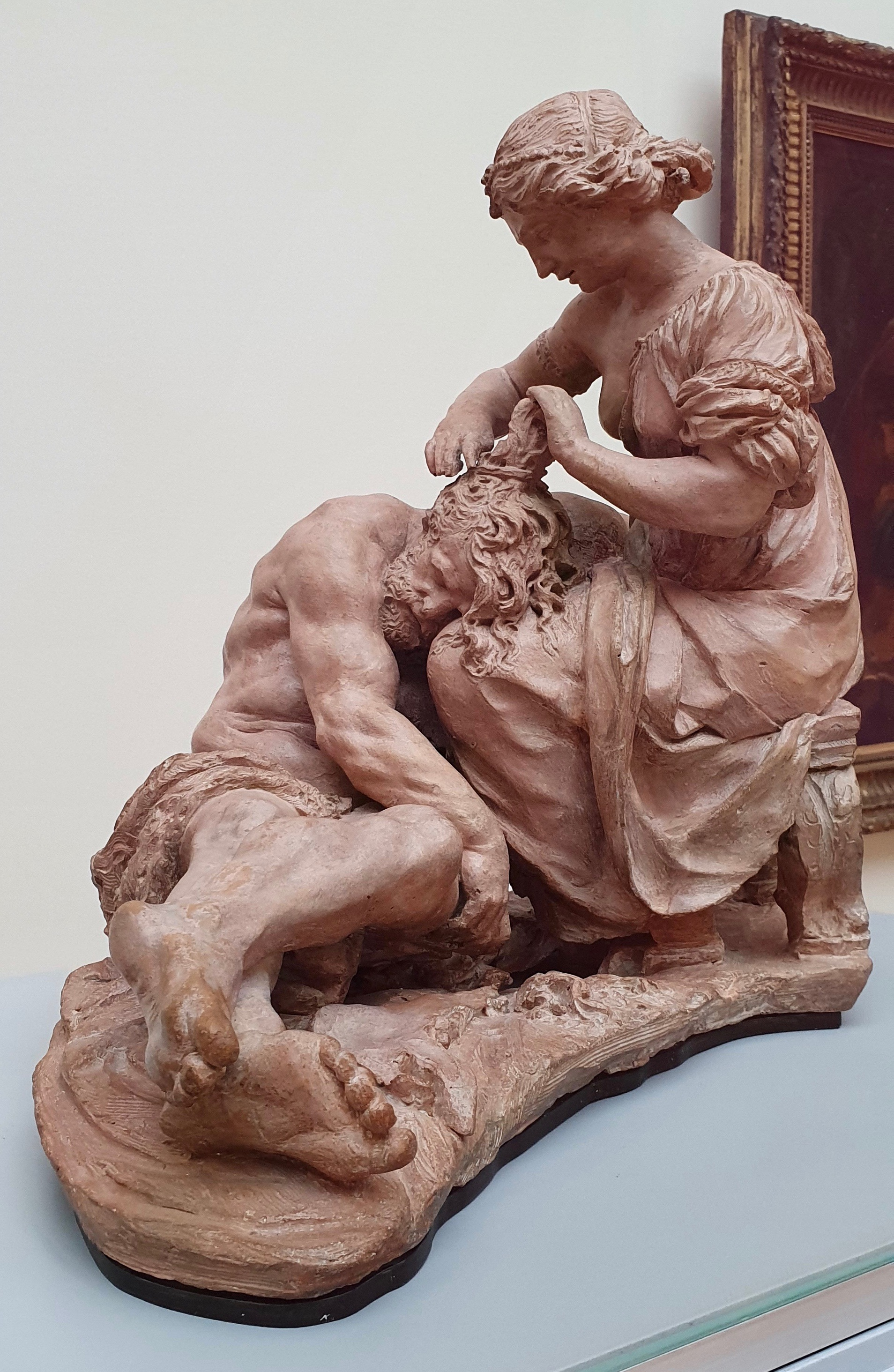 Dalila cutting Samson's hair by Artus Quellinus the Elder-Bode Museum